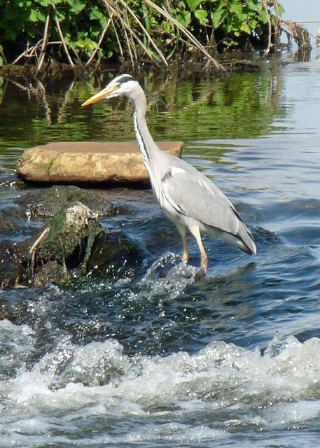 Grey Heron fishing the River Trent The photograph was taken from the Essex Bridge looking in the direction of where the Sow joins the Trent.